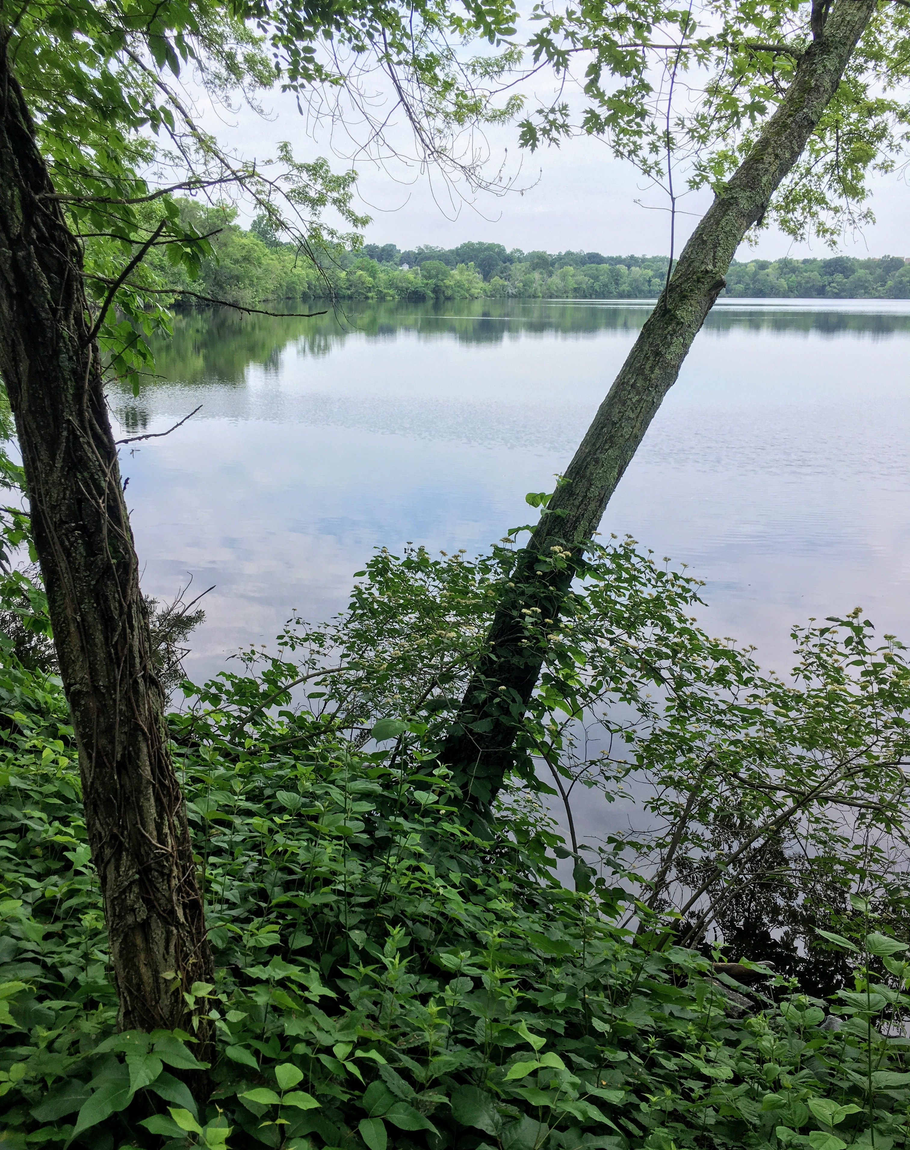 A view of the lake at Fresh Pond Reservation, Cambridge, Massachusetts, USA, on a hazy day